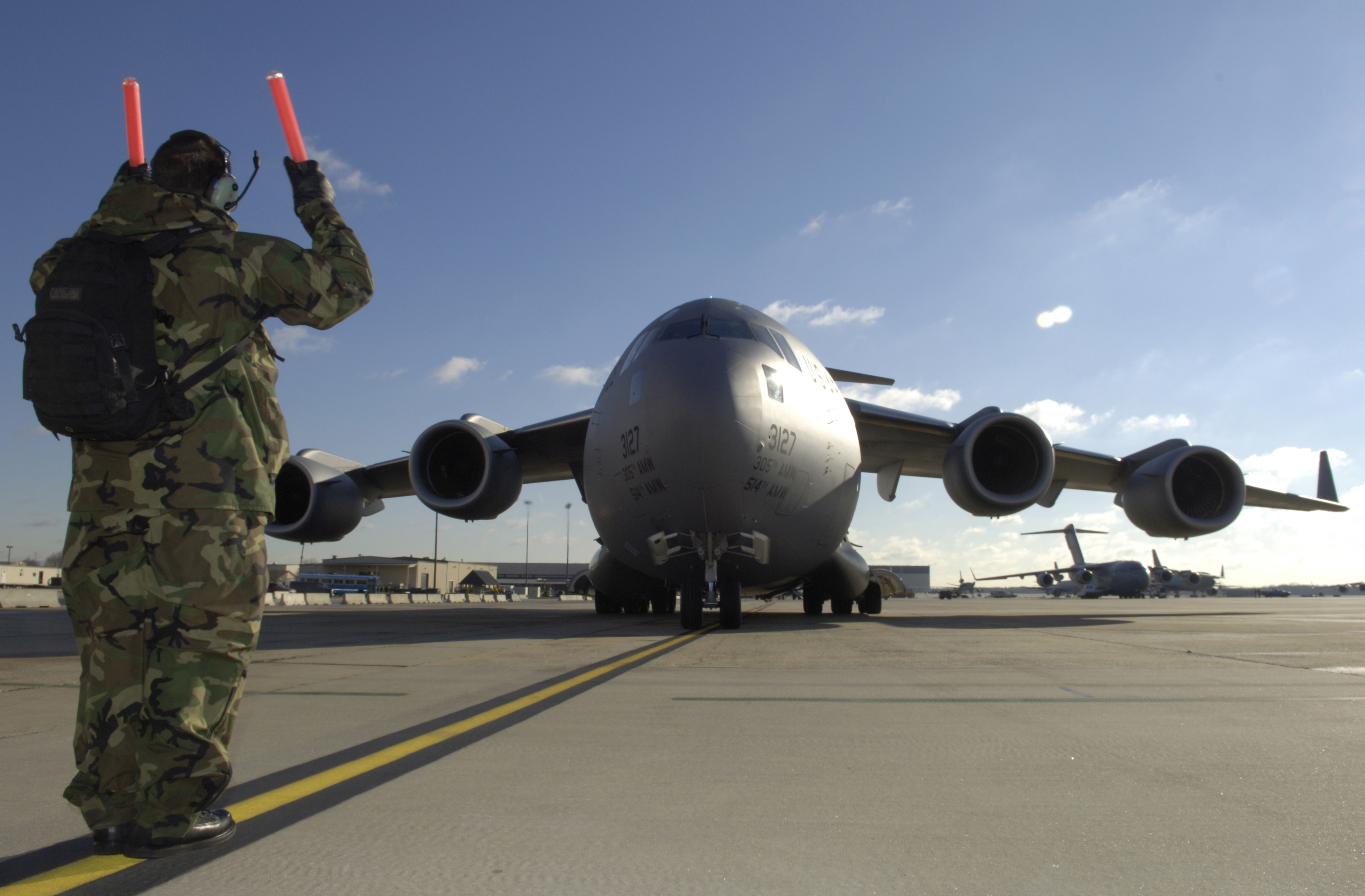 Air Force Airman 1st Class David Eskew directs the crew of a C-17 Globemaster III to a parking spot on the flight line at McGuire Air Force Base, N.J., on Dec. 16, 2005. The Globemaster was deployed as part of the 818th Contingency Response Group's mission to provide humanitarian assistance to Pakistan after a devastating earthquake hit the area on Oct. 8, 2005. Eskew is attached to the 305th Aircraft Maintenance Squadron at McGuire.